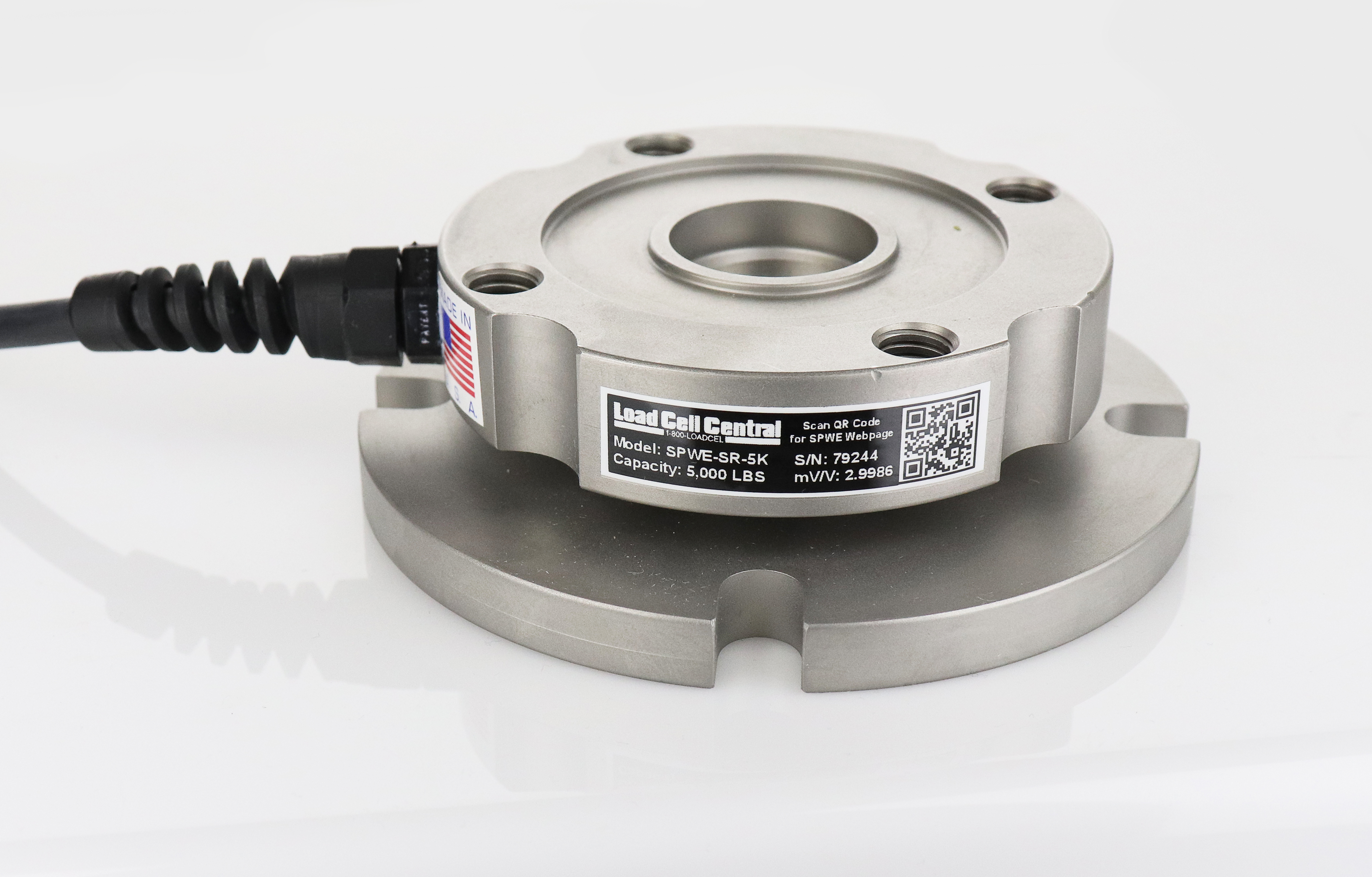 SPWE pancake load cell; tank and vessel weighing; tension/compression